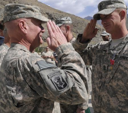 Col. Thomas E. Drew, 86th Infantry Brigade Combat Team deputy commander, Task Force Wolverine, salutes U.S. Army Sgt. Maj. Scott Doyon, Panjshir Provincial Reconstruction Team member and Clinton, Maine native, after he was presented a Bronze Star Medal for his actions in Afghanistan. Doyon was one of five individuals who were presented the Bronze Star by Drew on Oct. 21, 2010.